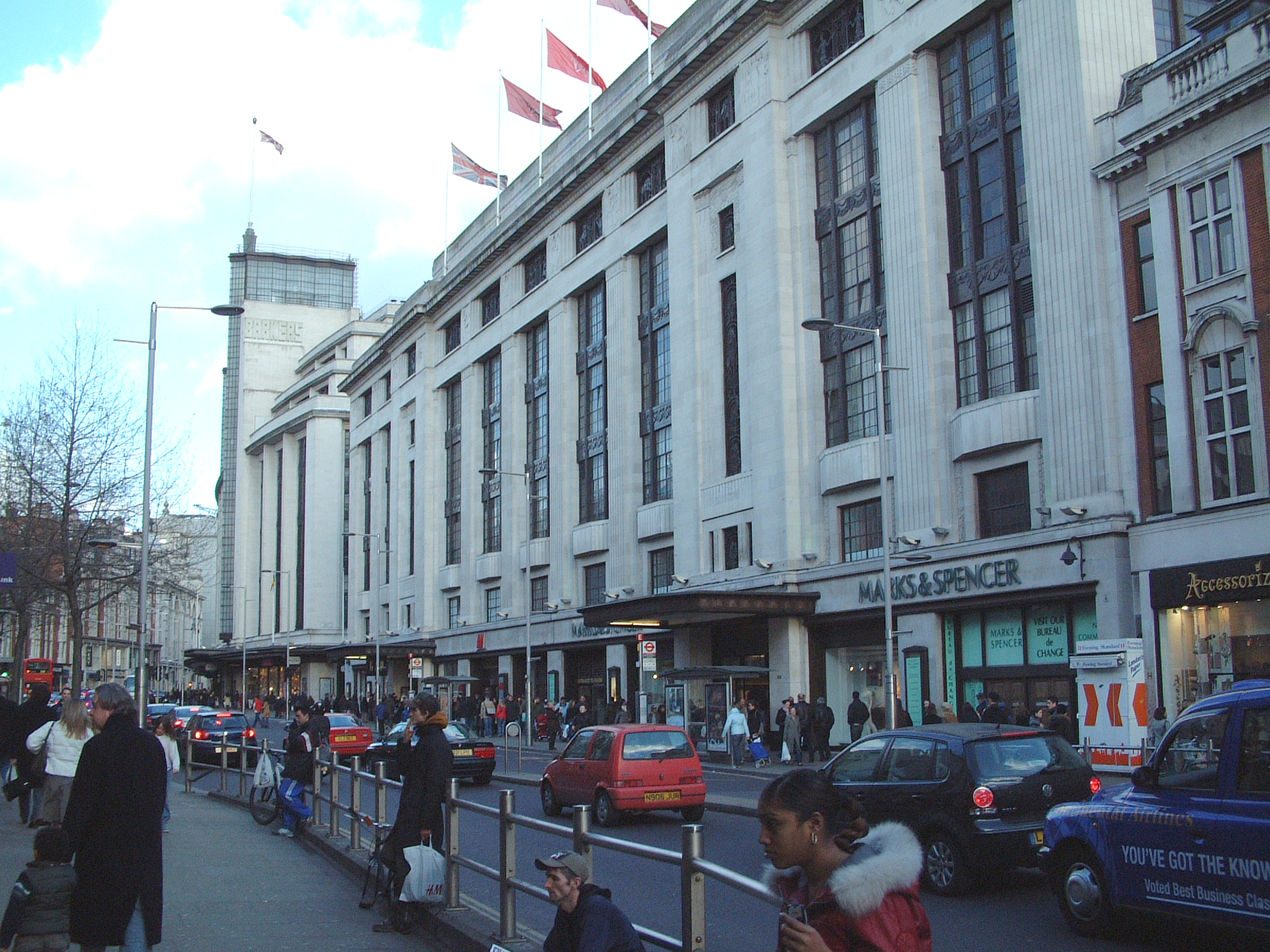 Kensington High Street in March 2006, with the Derry & Toms and Barkers buildings. Picture taken by me, Thomas Blomberg.